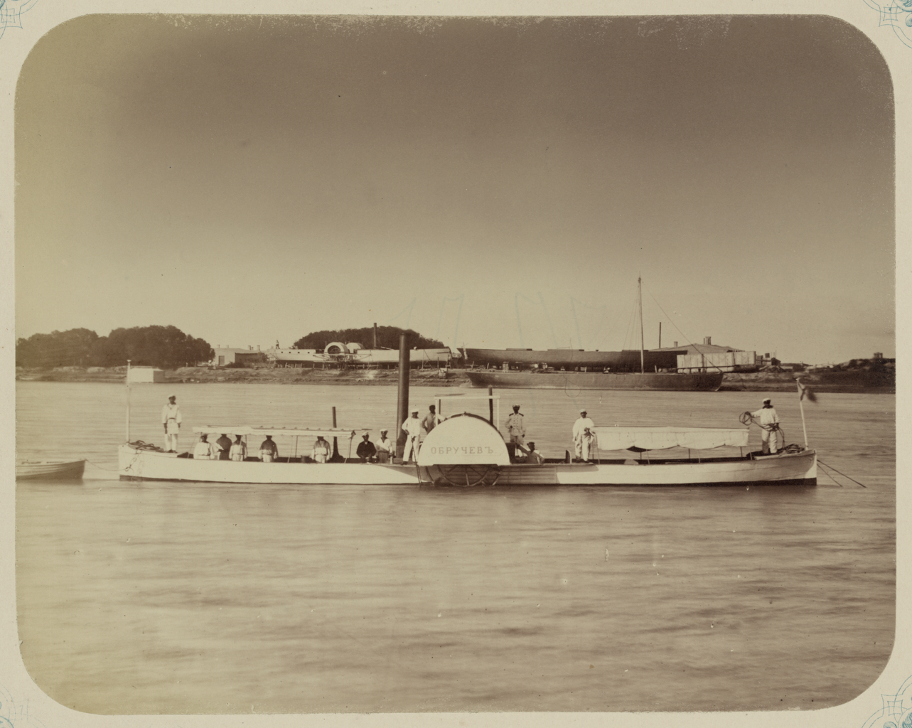 This photograph is from the ethnographical part of Turkestan Album, a comprehensive visual survey of Central Asia undertaken after imperial Russia assumed control of the region in the 1860s. Commissioned by General Konstantin Petrovich von Kaufman (1818–82), the first governor-general of Russian Turkestan, the album is in four parts spanning six volumes: “Archaeological Part” (two volumes); “Ethnographic Part” (two volumes); “Trades Part” (one volume); and “Historical Part” (one volume). The principal compiler was Russian Orientalist Aleksandr L. Kun, who was assisted by Nikolai V. Bogaevskii. The album contains some 1,200 photographs, along with architectural plans, watercolor drawings, and maps. The “Ethnographic Part” includes 491 individual photographs on 163 plates. The photographs show individuals representing the different peoples of the region (Plates 1–33); daily life and rituals (Plates 34–91); and views of villages and cities, street vendors, and commercial activities (Plates 92–163). Boats and boating; Ethnographic photographs; Photographic surveys; Russians; Sailors